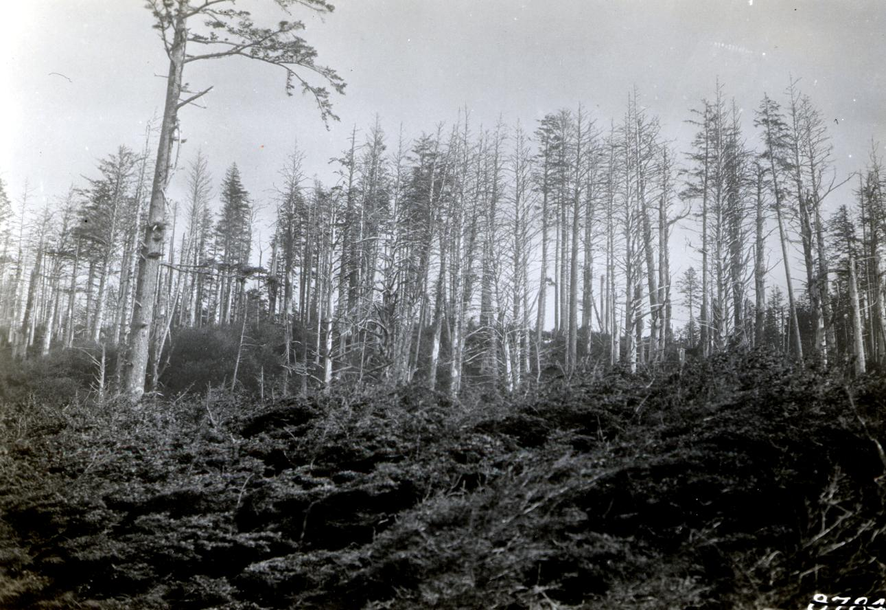 Aphis abietina, Walk., damage to Sitka spruce. Mora, Washington. Note: Taxonomy is from 1932 documentation. Photo by: James A. Beal Date: October 1932 Credit: USDA Forest Service, Pacific Northwest Region, State and Private Forestry, Forest Health Protection. Collection: Bureau of Entomology, Portland Station Collection; La Grande, Oregon. Image: PS-75 and BUR-8784 To learn more about this photo collection see: Wickman, B.E., Torgersen, T.R. and Furniss, M.M. 2002. Photographic images and history of forest insect investigations on the Pacific Slope, 1903-1953. Part 2. Oregon and Washington. American Entomologist, 48(3), p. 178-185. For additional historical forest entomology photos, stories, and resources see the Western Forest Insect Work Conference site: Image provided by USDA Forest Service, Pacific Northwest Region, State and Private Forestry, Forest Health Protection: This image or file is a work of a United States Department of Agriculture employee, taken or made as part of that person's official duties. As a work of the U.S. federal government, the image is in the public domain.